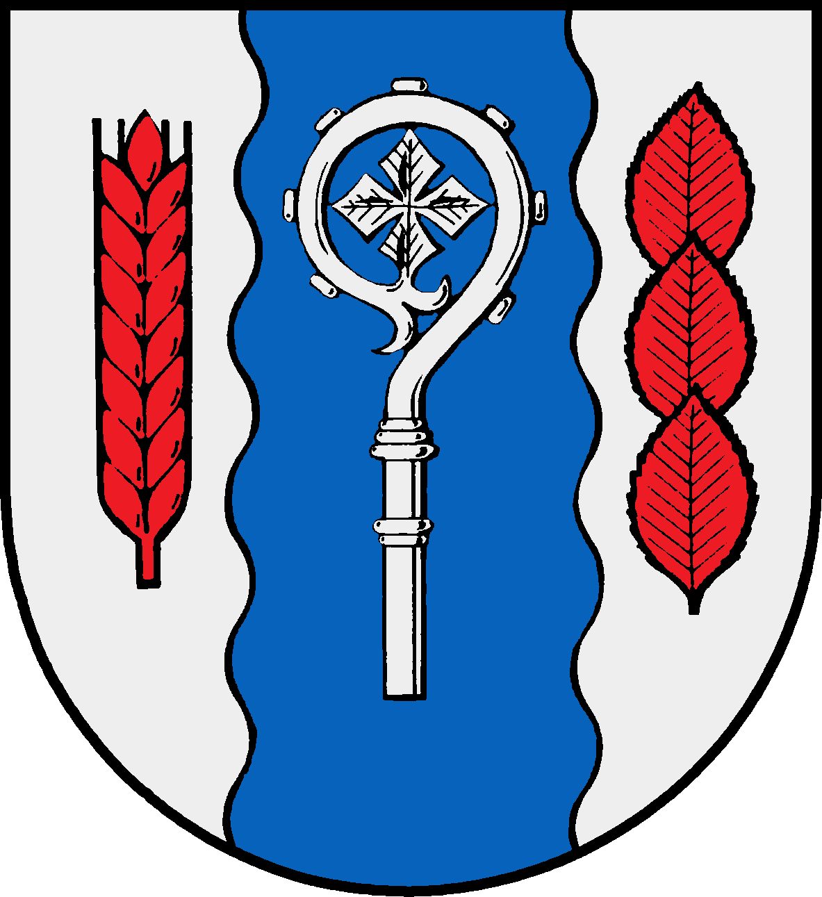 Coat of arms of the municipality Pohnsdorf in Schleswig-Holstein, Germany.